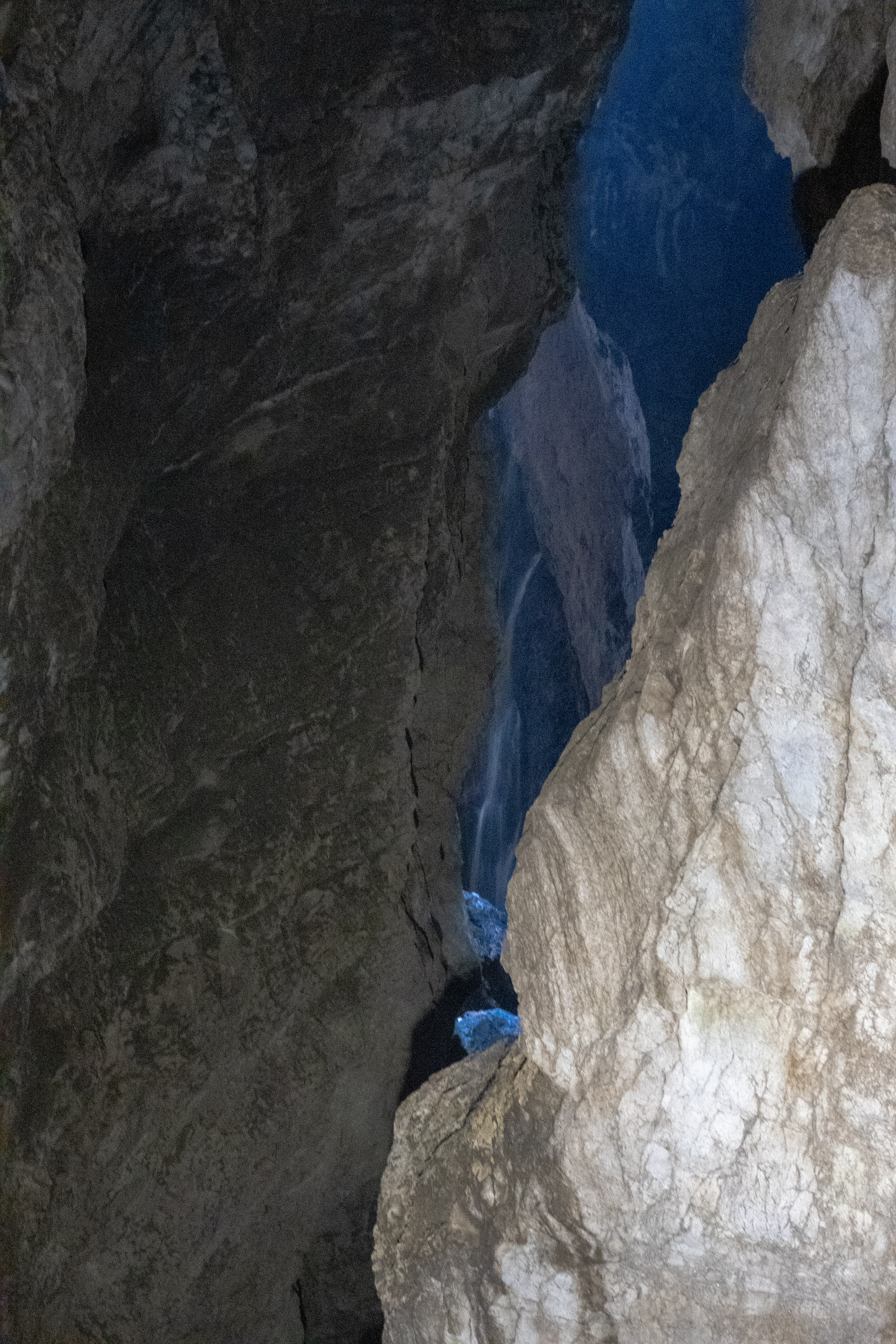 The Devil's Throat Cave, Bulgaria